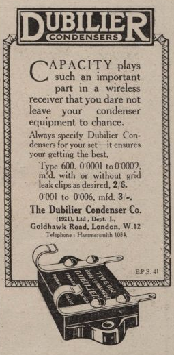 page 39 of the 28 December 1923 edition of The Radio Times